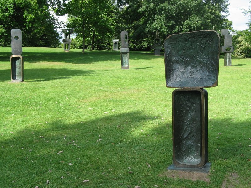 A selection of some of the Barbara Hepworth sculptures at the Yorkshire Sculpture Park Photo taken by Louparry, July 2003.